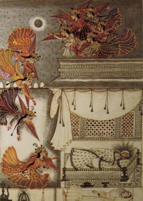 Fairies return Manohar. Illustration to the Sufi mystic story Madhumalati.